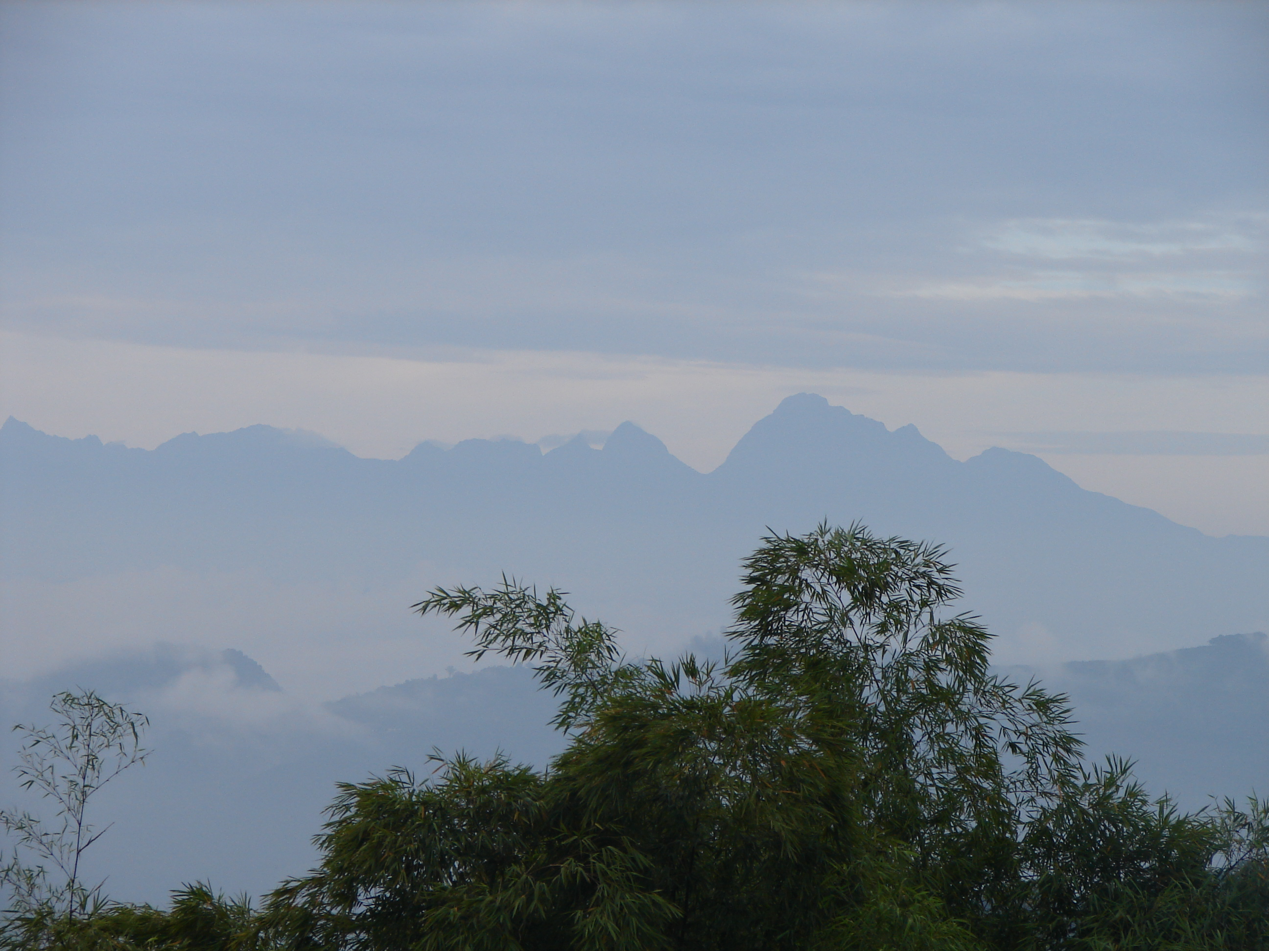 CITARA HIGHLANDS. IS A PARAMOUNT IN ANTIOQUIA - COLOMBIA